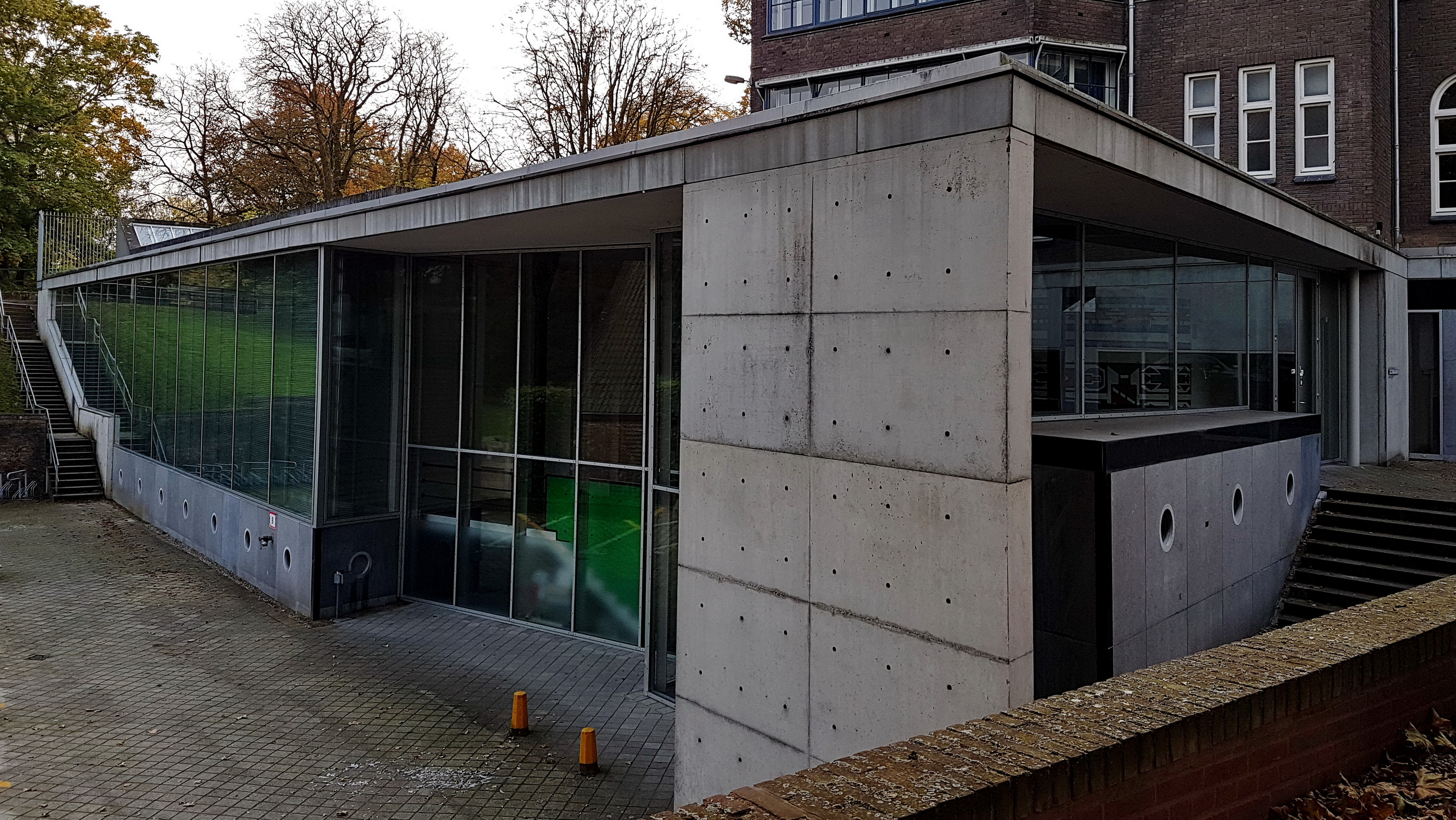 Modern addition to the Canisianum building in Maastricht, Netherlands. The Canisianum was built as a Jesuit monastery with a theological faculty. It is now the School of Business and Economics of the University of Maastricht. The lecture hall was designed by Jo Coenen and built half underground.